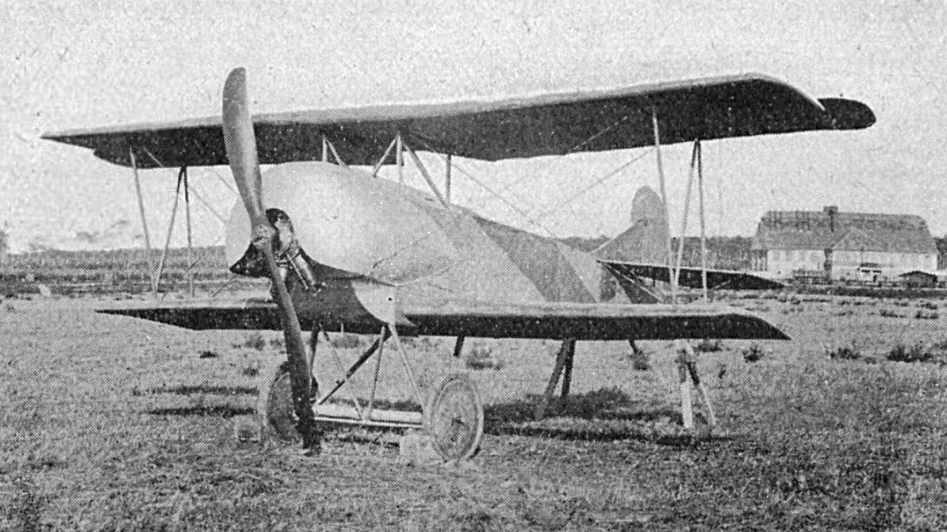 Dietrich DP.I Sperber photo from L'Aéronautique October,1922